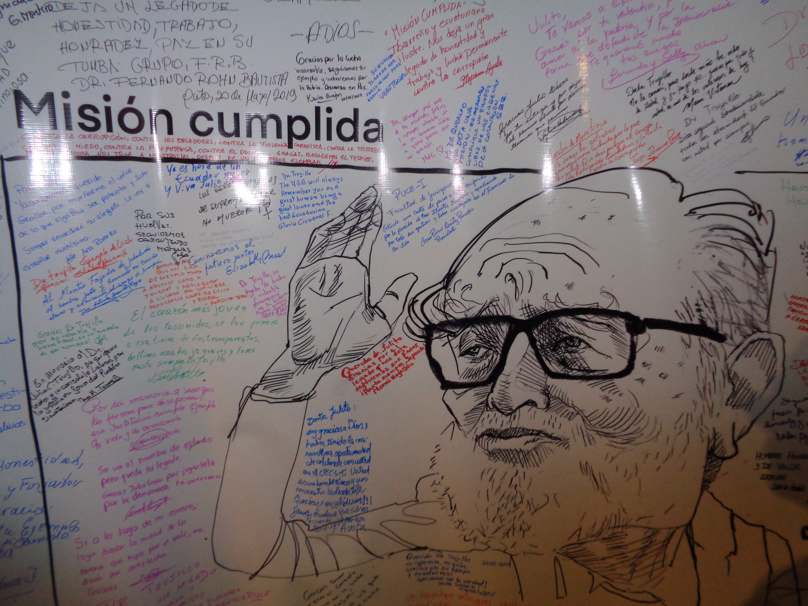 a memorial to the life of Julio César Trujillo a member of the National Congress from 1979 to 1984 a memorial to the life of Julio César Trujillo a member of the National Congress from 1979 to 1984 PUCE campus Quito 20th May 2019